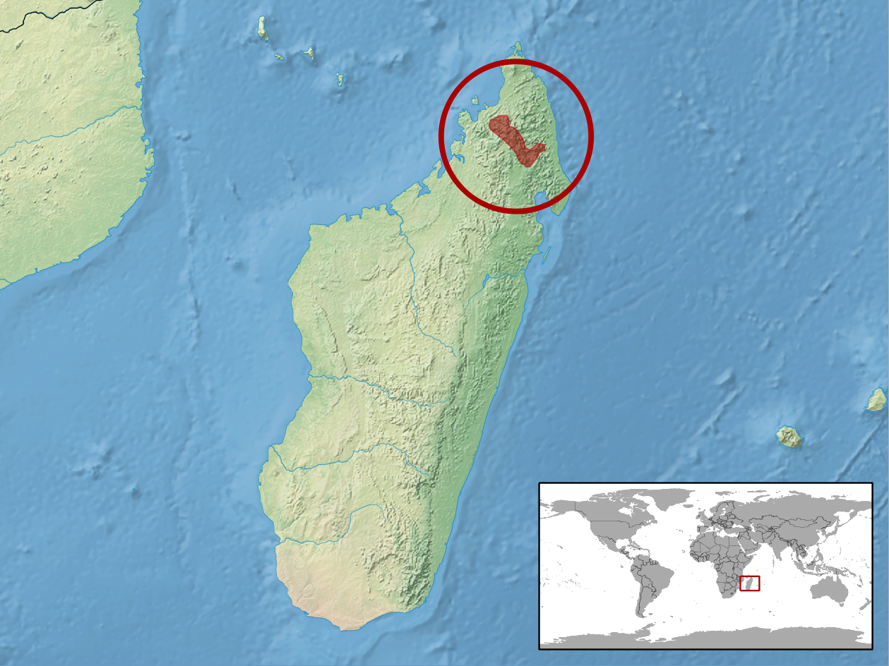 geographic distribution of Calumma guillaumeti (Native: Madagascar)